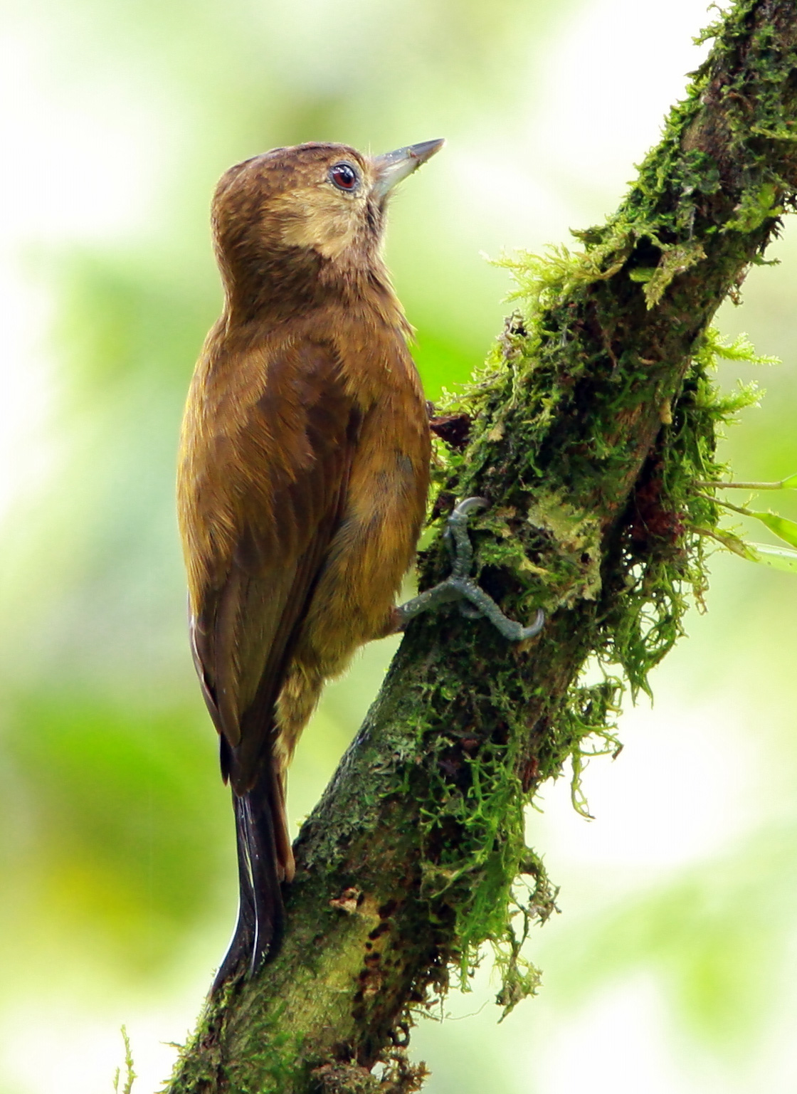 Female Smoky-brown woodpecker (Leuconotopicus fumigatus), Rio Silanche Reserve, Ecuador